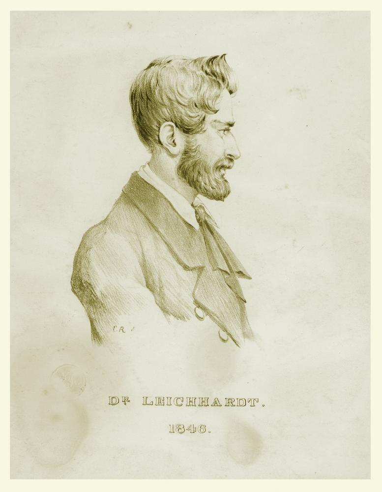 Ludwig Leichhardt (1813–1848), lithographed portrait A lithograph of Dr Leichhardt by the rare portraitist, Rodius, completed when Leichhardt returned after his first and successful, 3,000 mile expedition to Port Essington, Queensland in 1845.